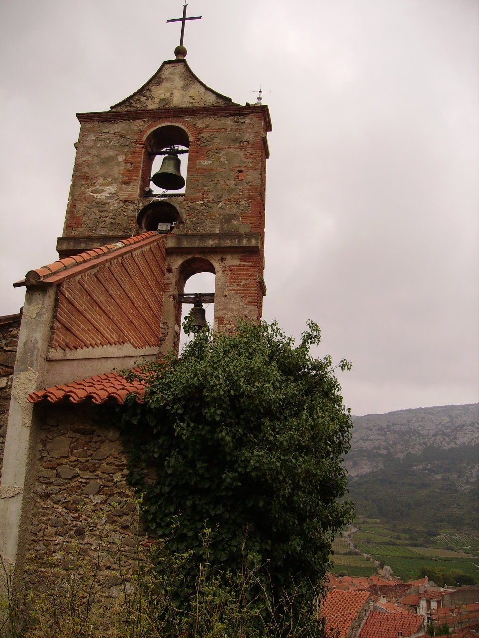 church in Vingrau, build in XII century.